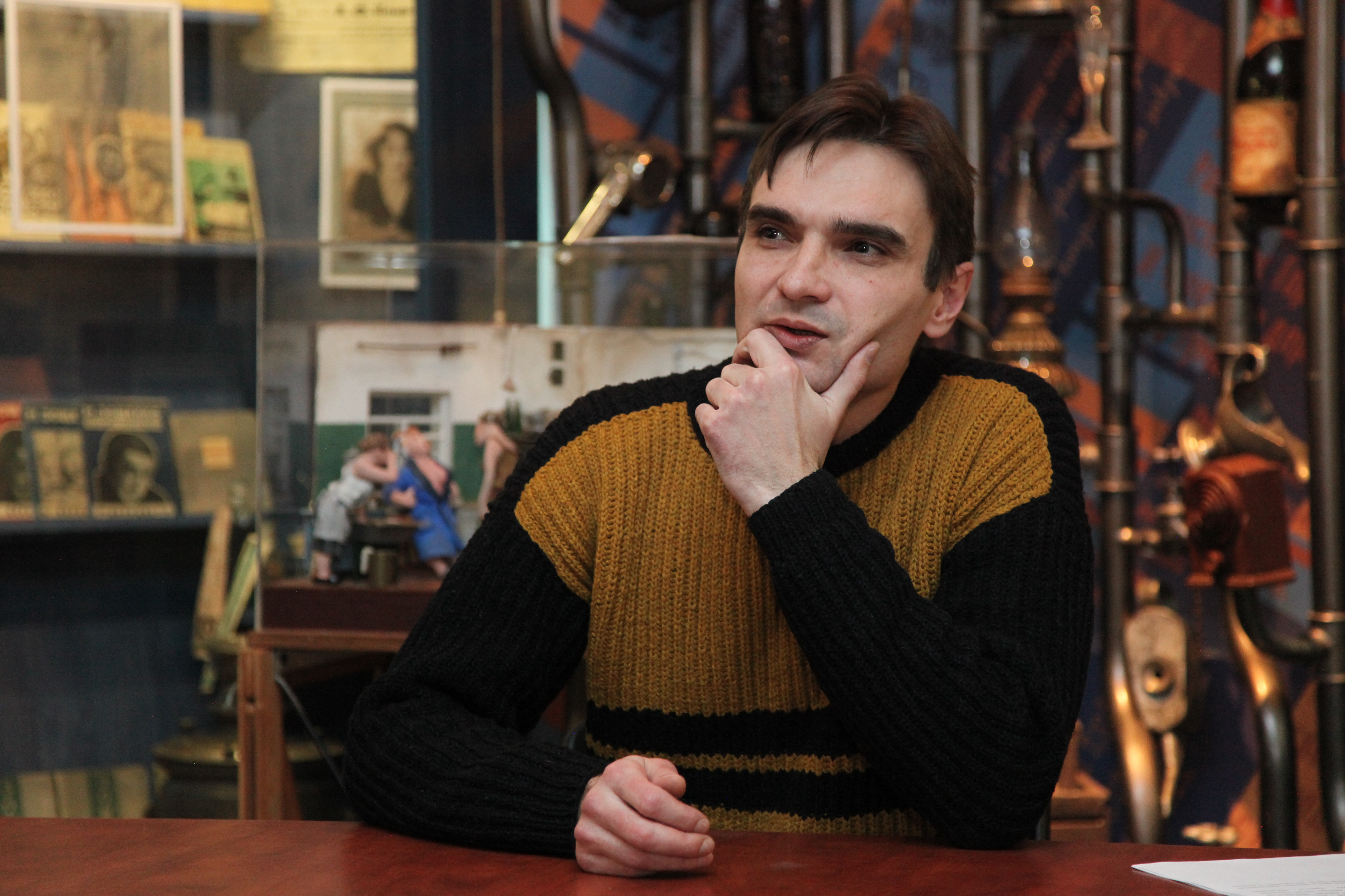 Alexander Karasyov - Evening at the Zoshchenko Museum, St. Petersburg